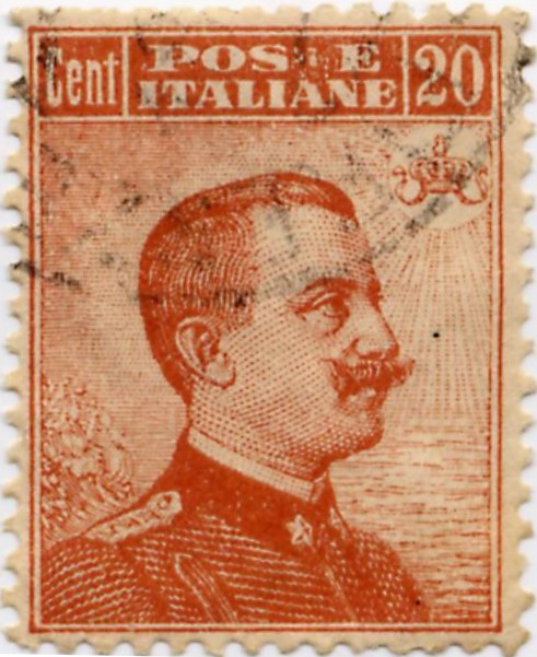 Stamp of Kingdom of Italy - Vittorio Emanuele III 20 cent - (1916-1922)